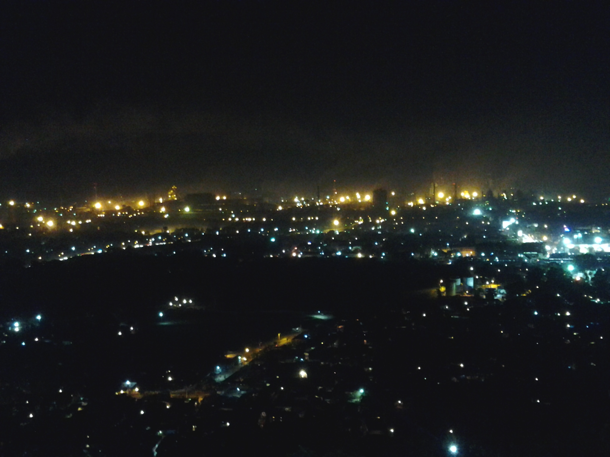 Rourkela at night seen from Vaishno Devi Temple